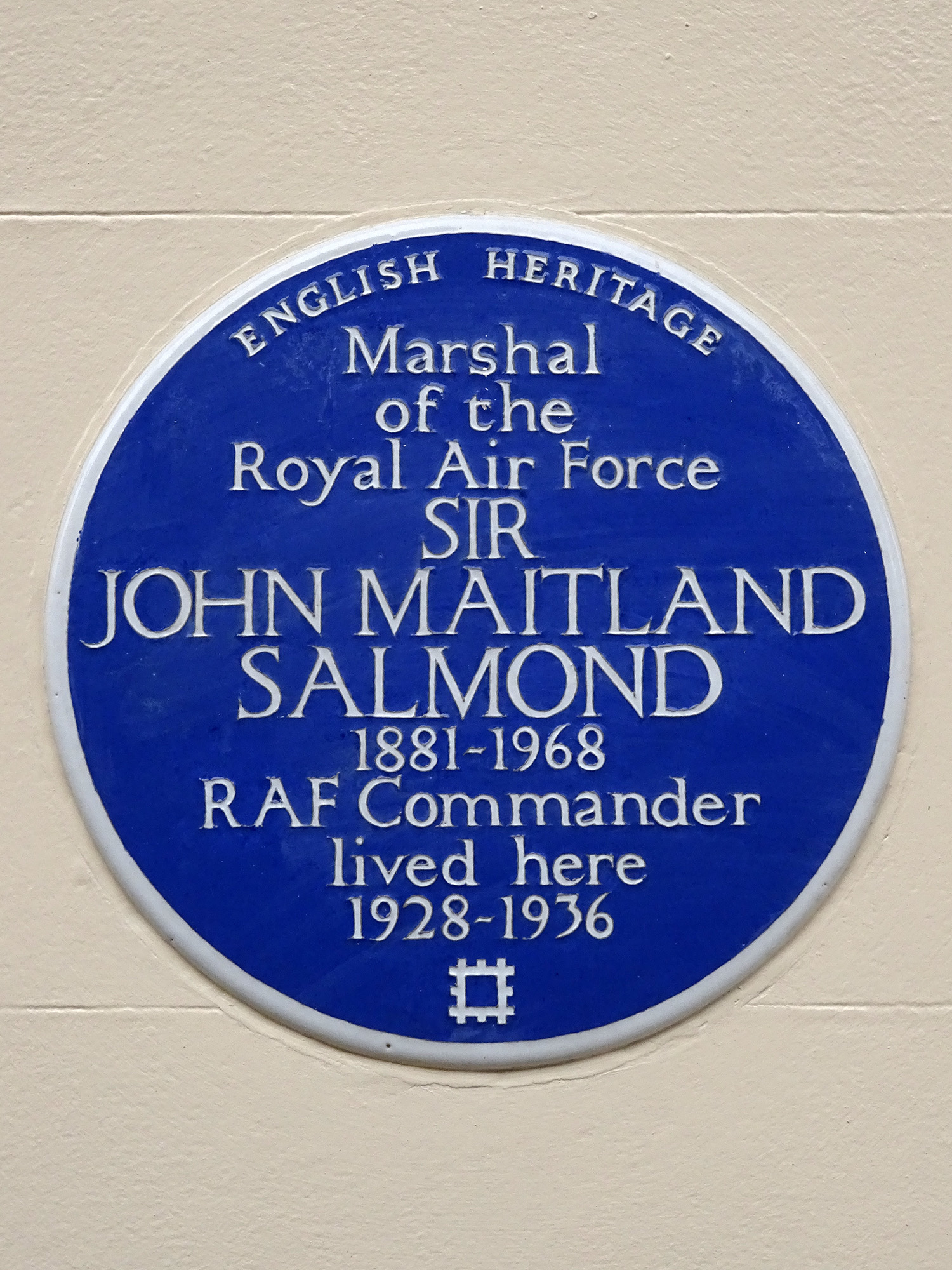 Blue plaque erected in 2002 by English Heritage at 27 Chester Terrace, Regent's Park, London NW1 4ND, London Borough of Camden